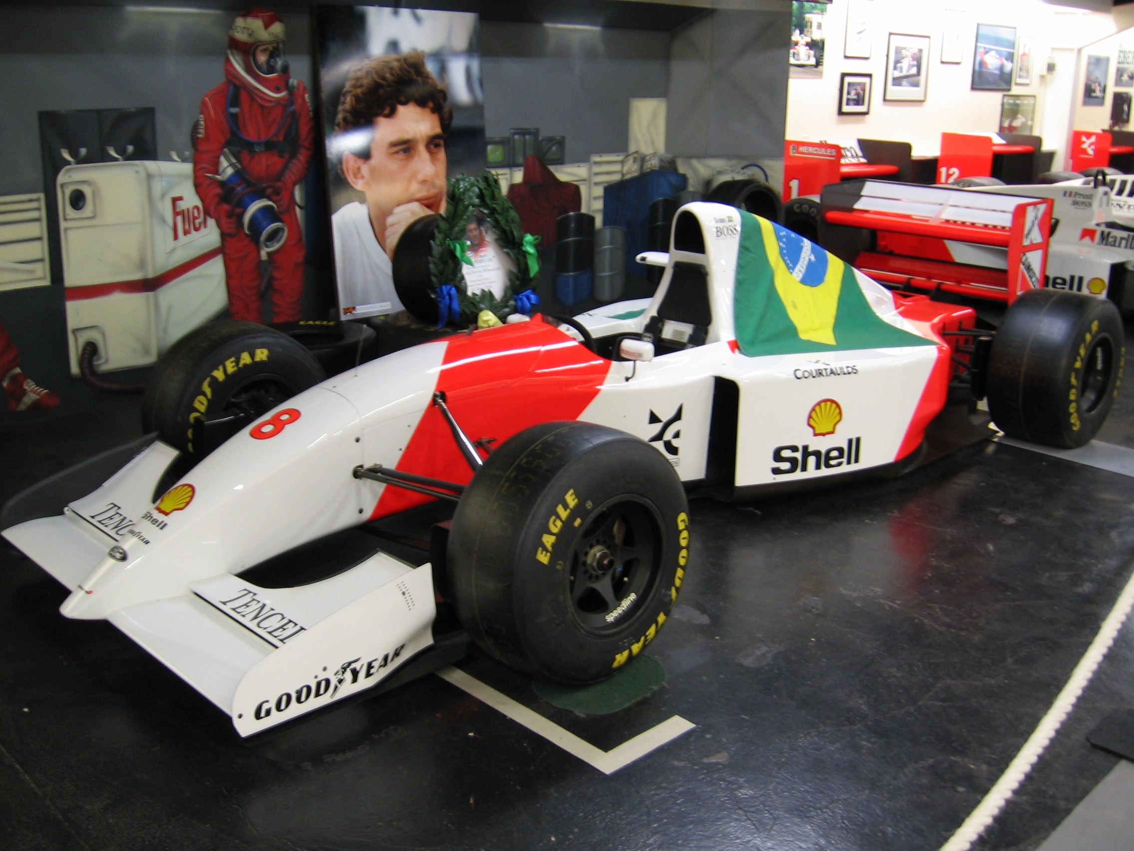 Mclaren MP4/8 on display at the Donington Collection, yards from the circuit where he executed perhaps the greatest wet-weather victory in a MP4/8.